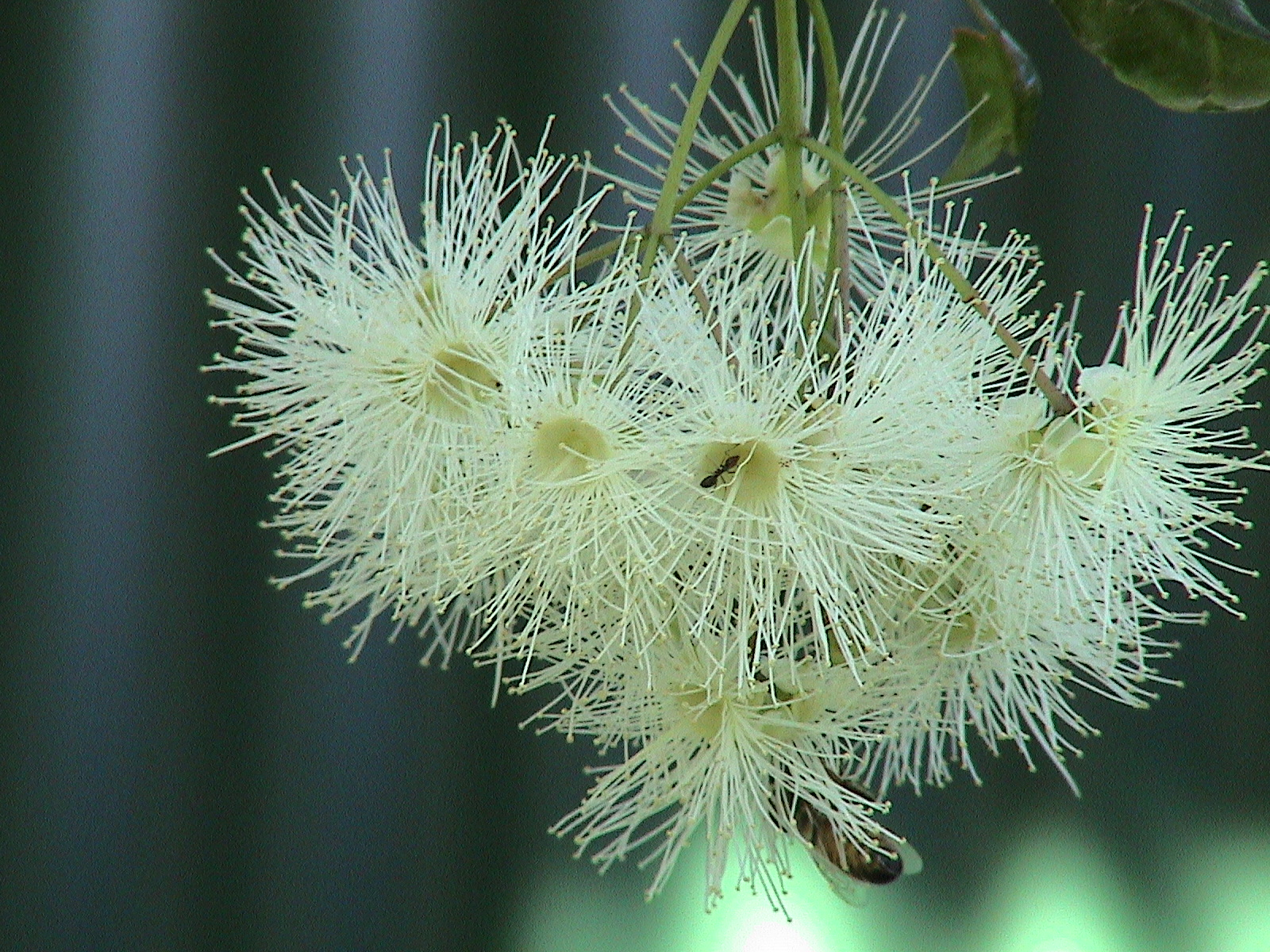 Lilli pilli (Syzygium smithii) flowers being pollinated by a bee and an ant; in my back yard.